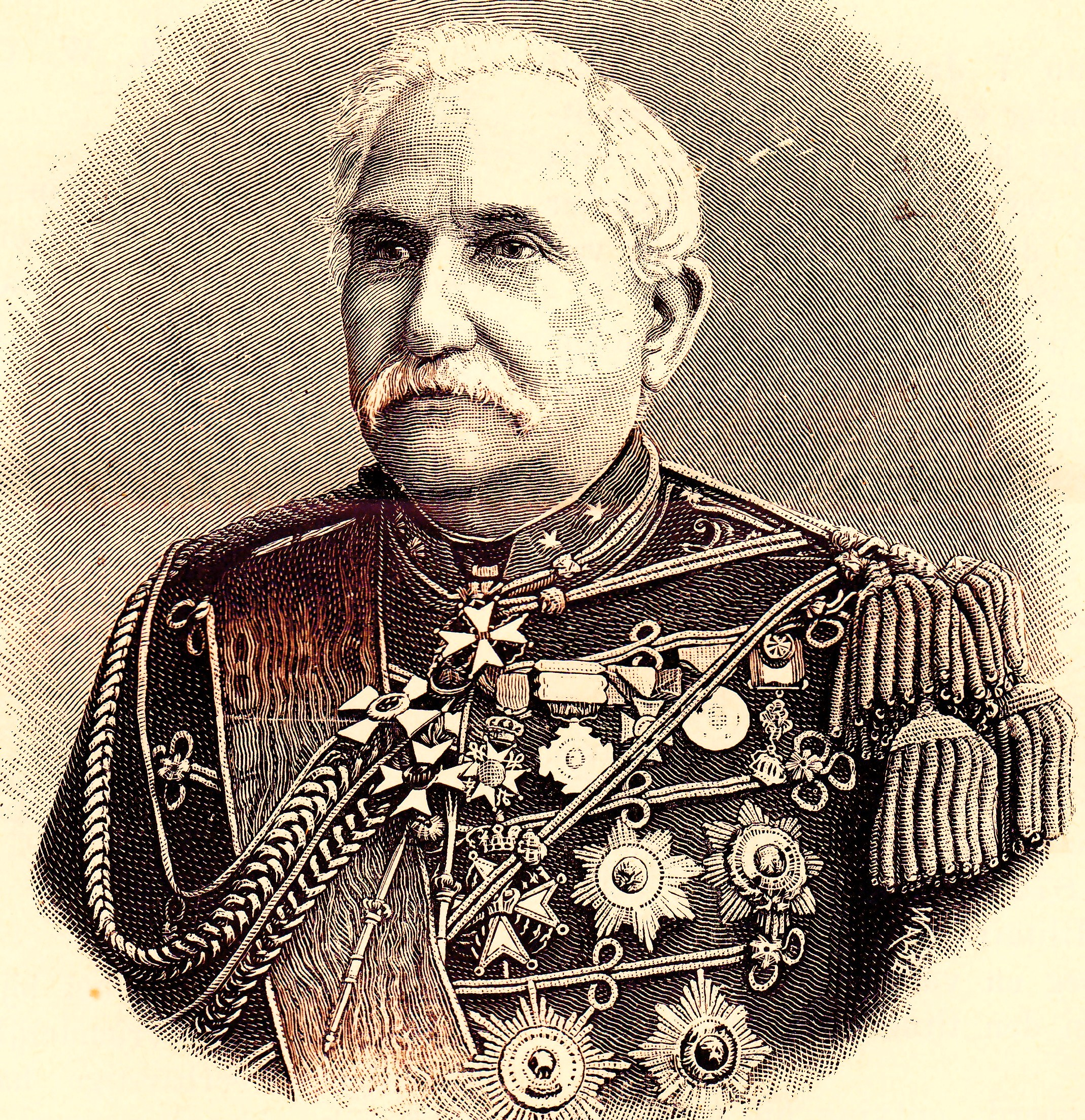 Generaal Gustave Marie Verspijck